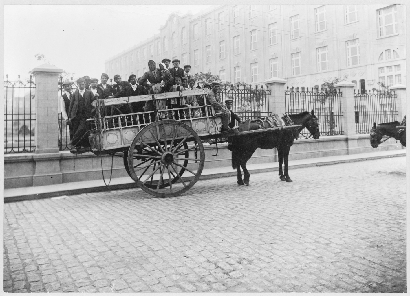 Immigrants being transported on horse-drawn cart in Buenos Aires, Argetina. Carpenter's Geographical Reader: South America (1899) informed readers that “Buenos Aires is by far the largest Spanish-speaking city of the world; it is more than three times the size of Madrid, the largest city of Spain. Still, most of its people are foreigners. Not more than one fifth of them were born in the country. There are more Italians than native Argentines in Buenos Aires, and at least one hundred thousand of its citizens have come here from Spain.”